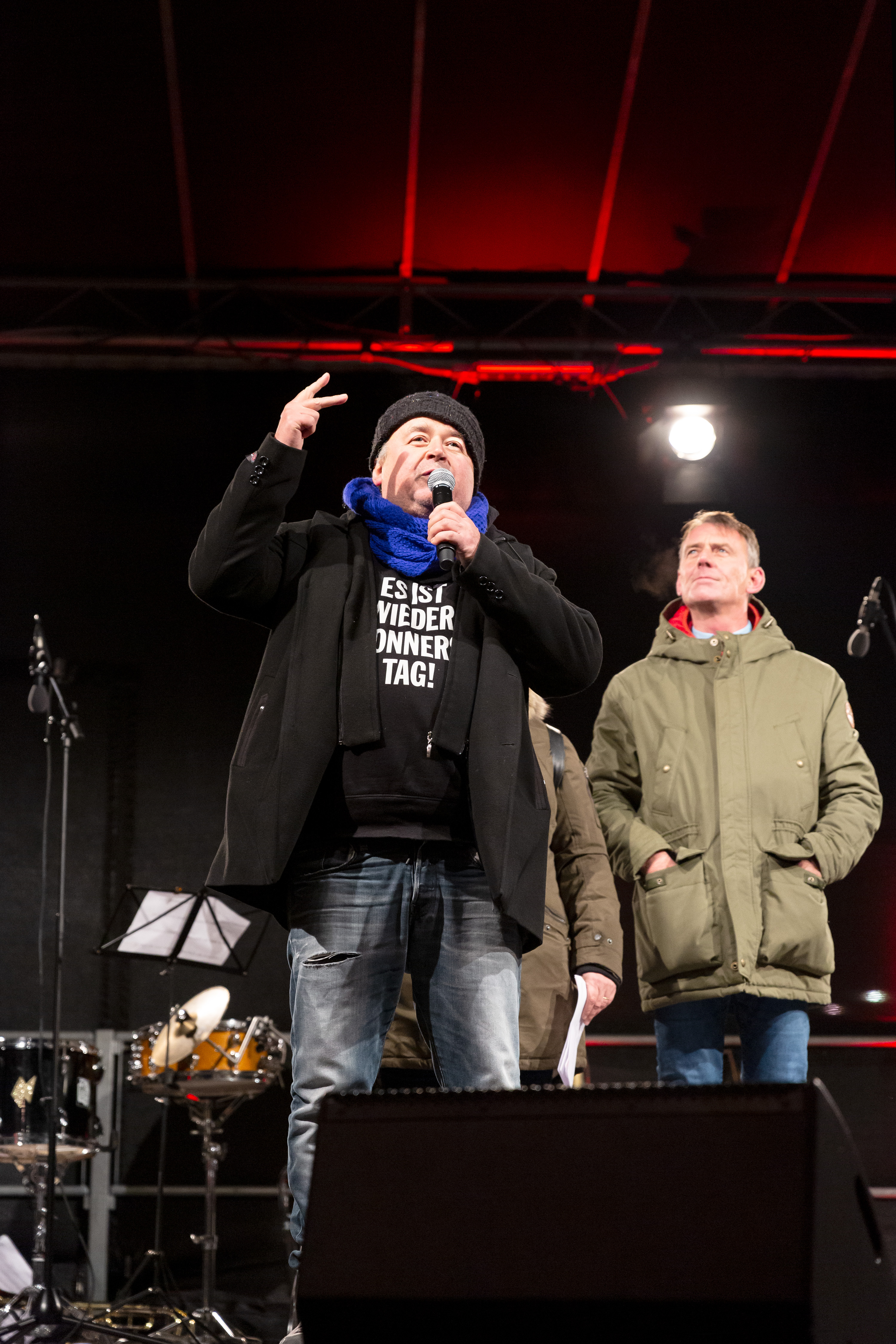 Final rally of the 9th Donnerstagsdemonstration (Thursday Demonstration) against the Kurz government; Schwarzenbergplatz in Vienna, Austria.